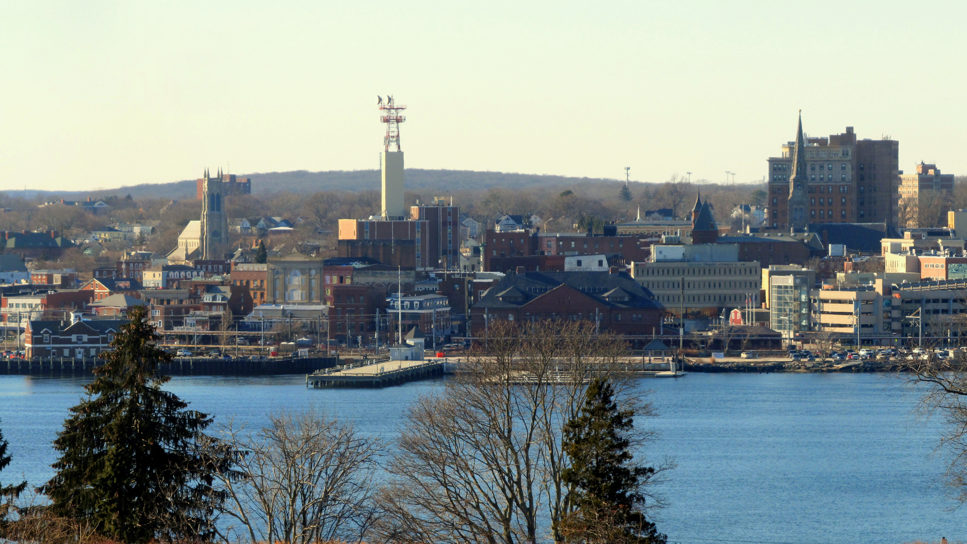 New London skyline viewed from Fort Griswold in December 2017